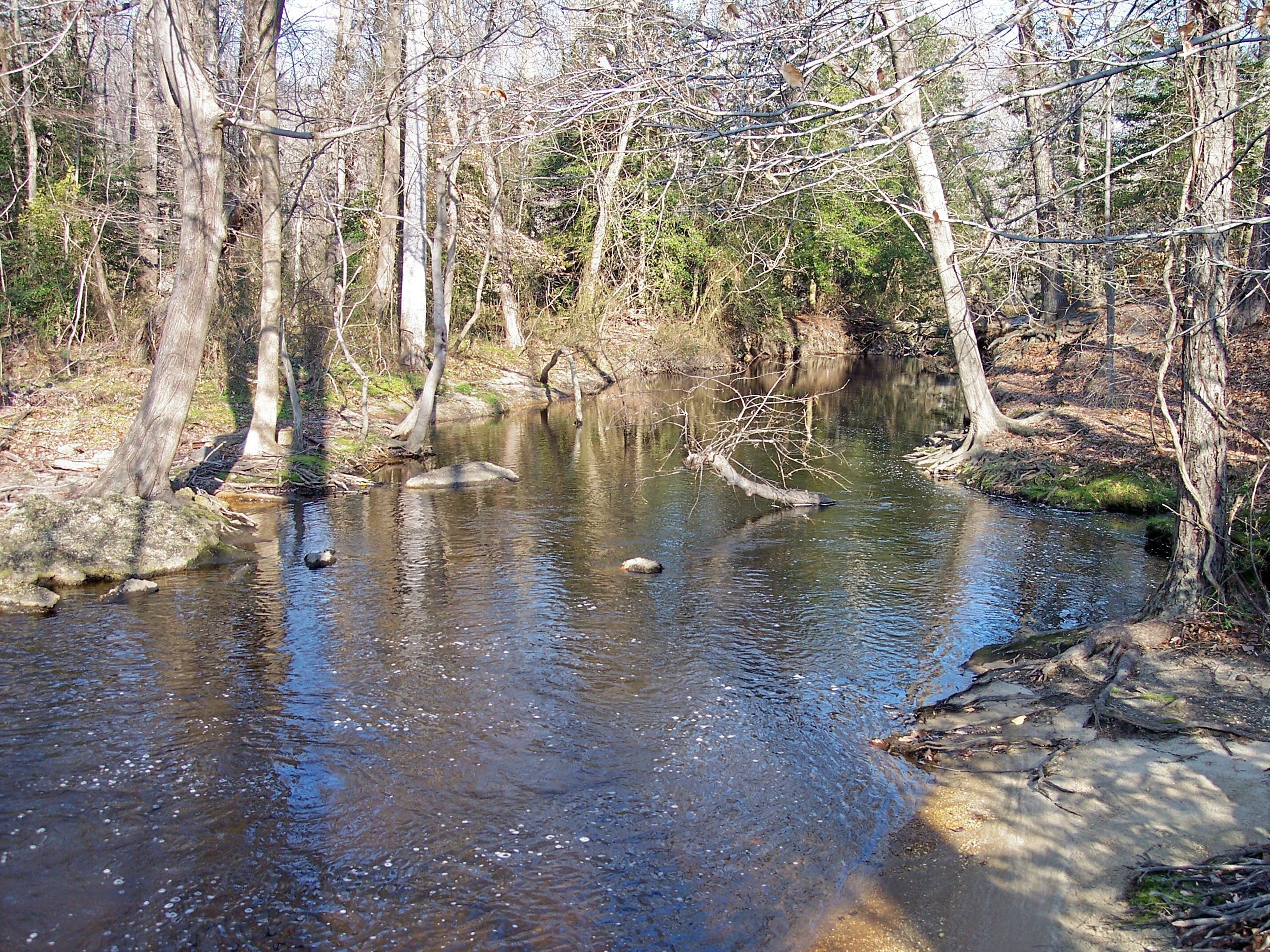 The Murderkill River in Kent County, Delaware, as viewed downstream from Killen Pond